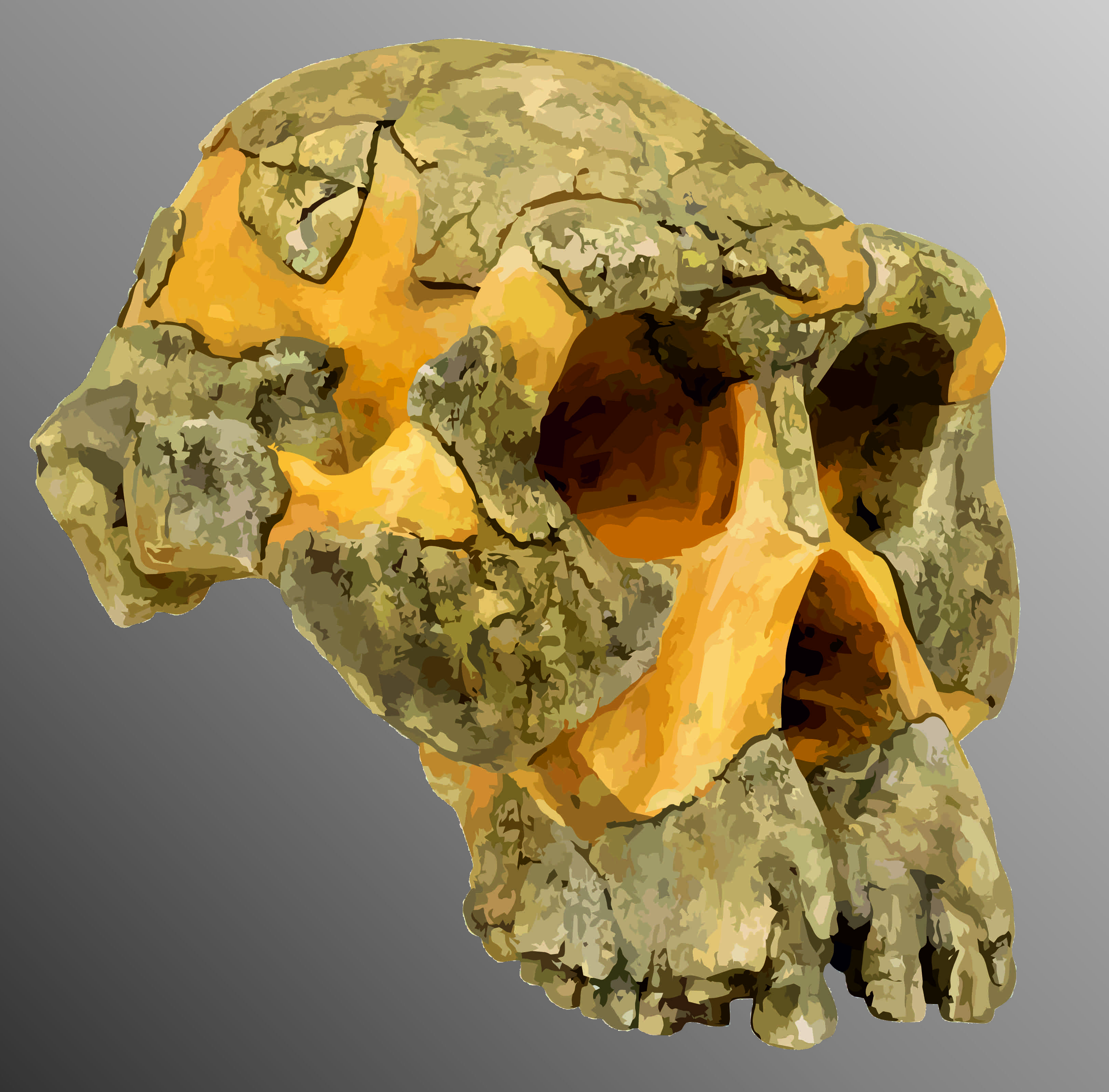 Australopithecus afarensis skull AL 444-2; Hadar, Ethiopia